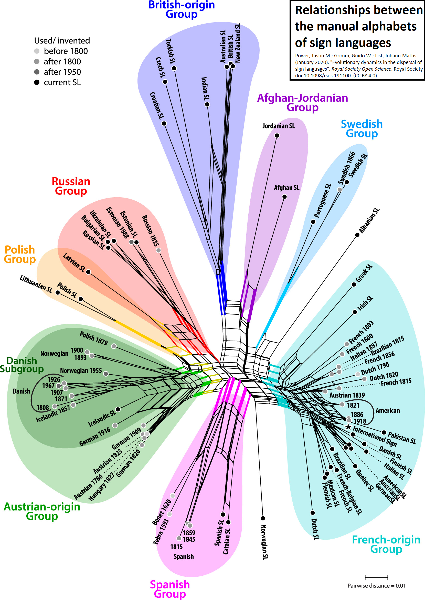 Relationships between the manual alphabets of sign languages, based on similarities found in an available dataset of 76 manual alphabets (MAs), both current and defunct manual alphabets.